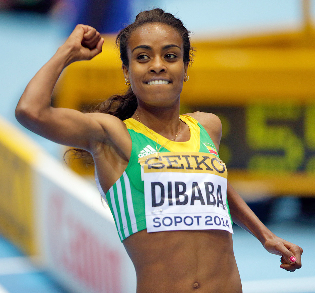 Genzebe Dibaba in 2014 IAAF World Indoor Championships